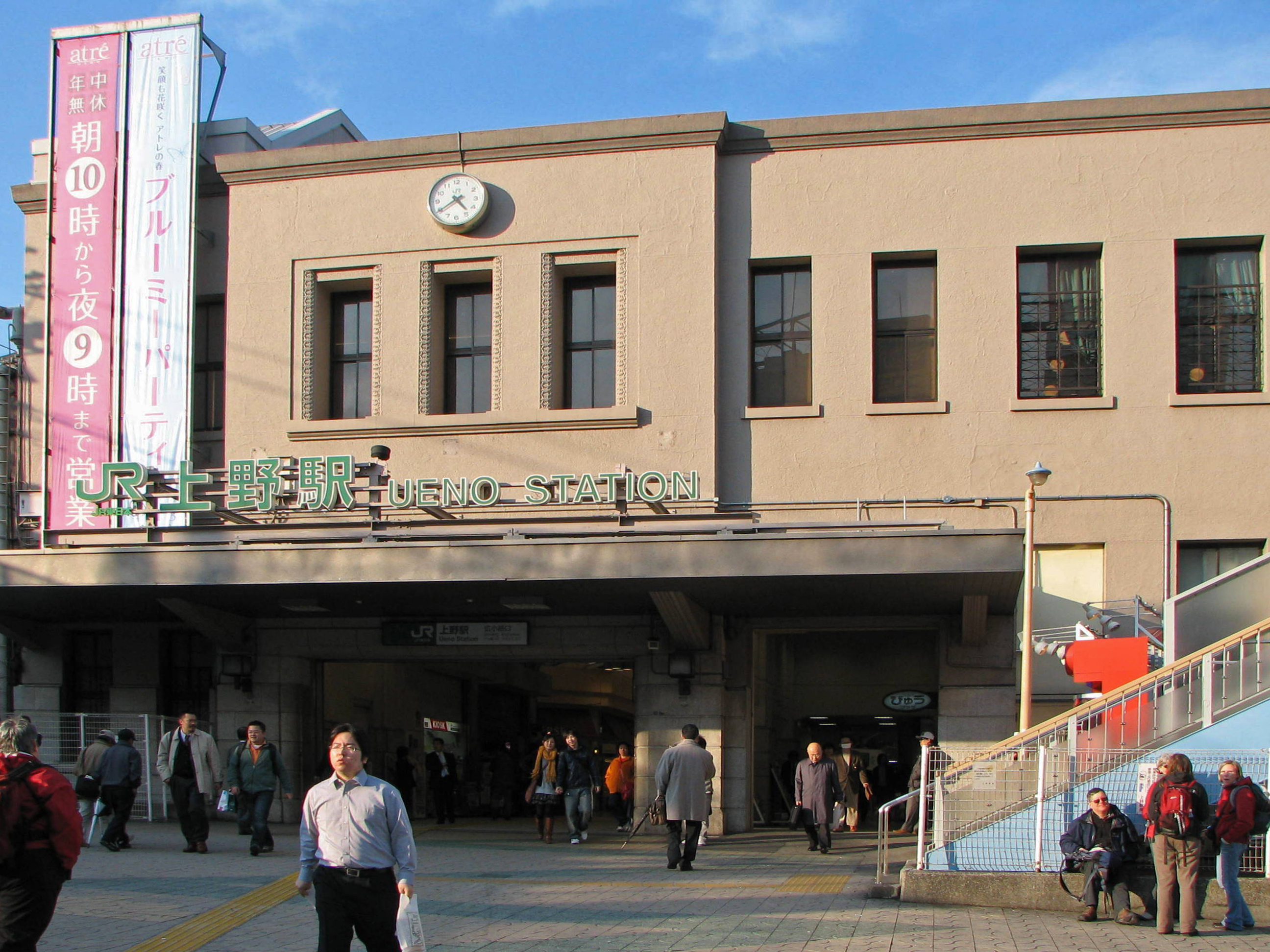 Ueno station, Tokyo, Japan